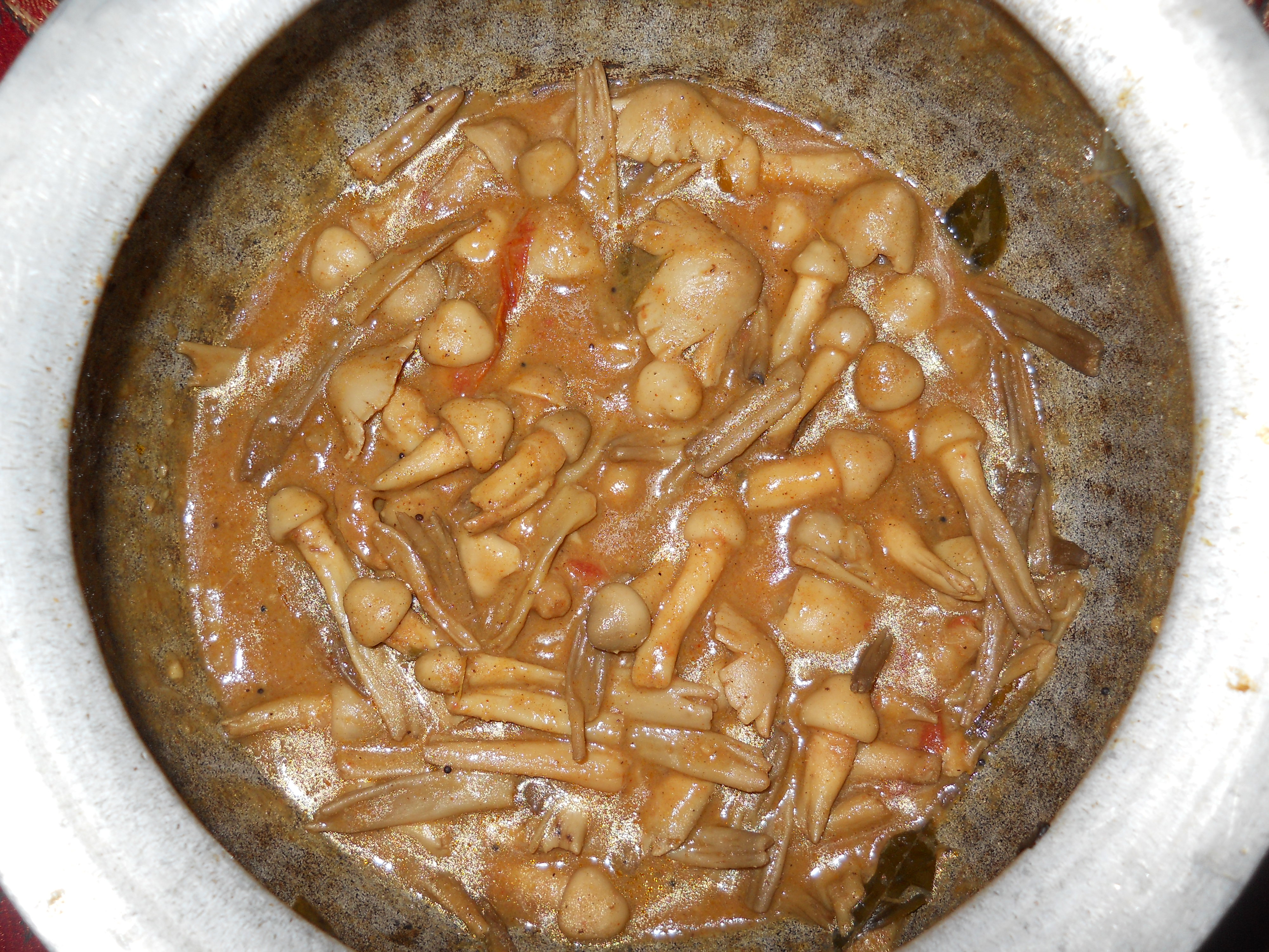 Natural Edible mushroom curry